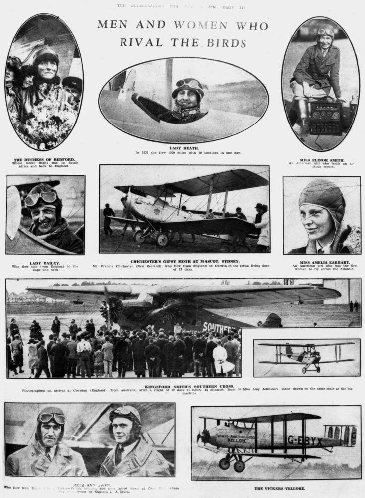 Men and women who rival the birds, 1930. Mary Russell, Duchess of Bedford Lady Mary Heath Miss Elinor Smith Lady Mary Bailey Francis Chichester's DH.60 Moth Miss Amelia Earhart Kingsford Smith's Southern Cross Fl Lt Sydney James Moir and Flg Off H.C. Owen Vickers Vellore